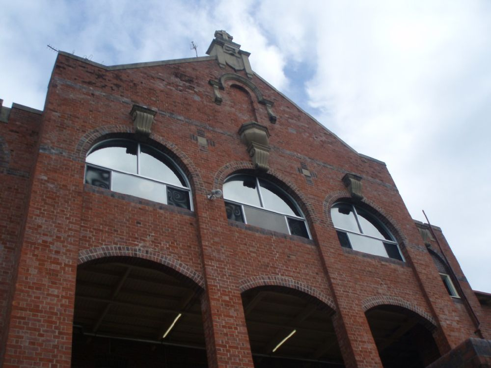 The Range Convent and High School, Genazzano (2009)